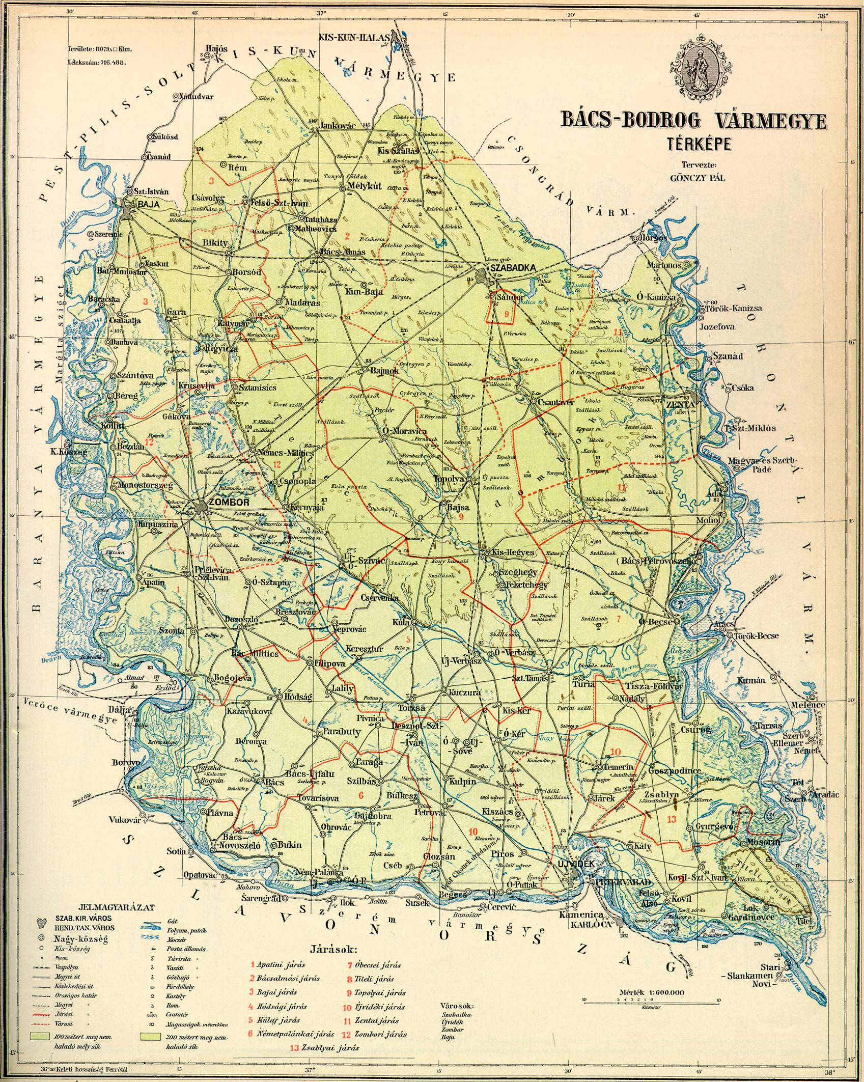 County of Bács-Bodrog in the pre-Trianon Kingdom of Hungary. Komitat Bács-Bodrog w Królestwie Węgier przed traktatem w Trianon.